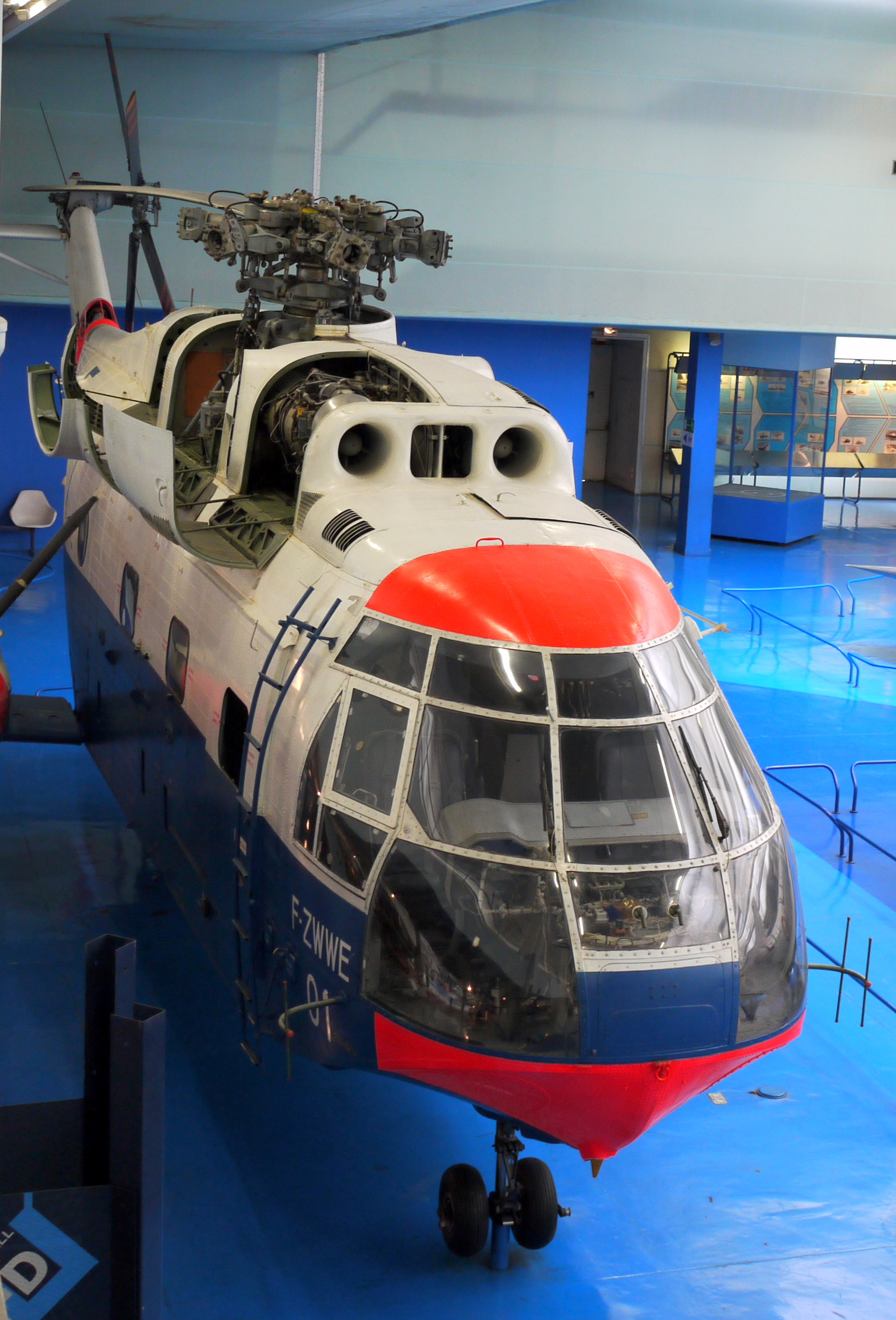 Heavy transport helicopter Super Frelon (1962), Museum of Air and Space Paris, Le Bourget (France)